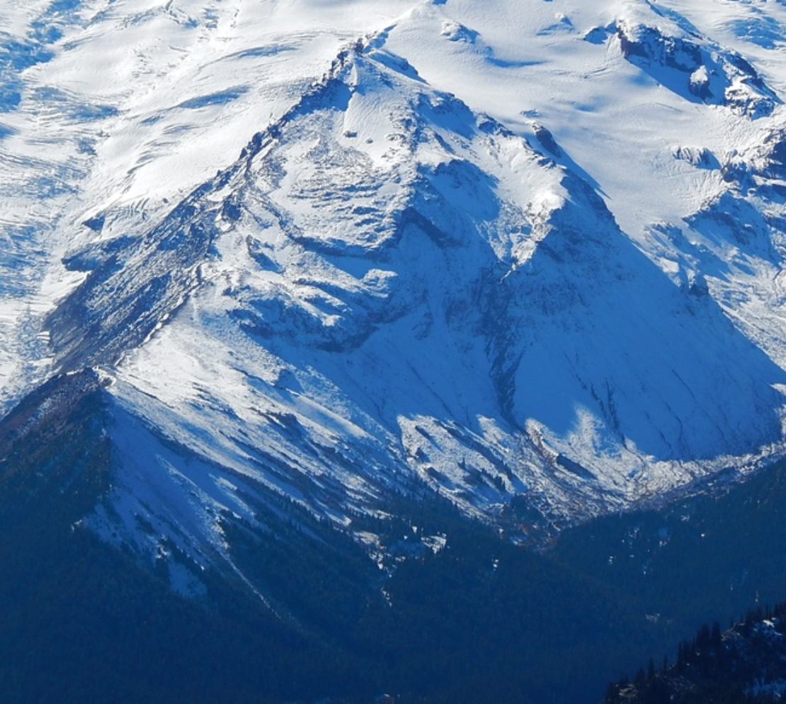 Mount Ruth, Mount Rainier National Park July 2016